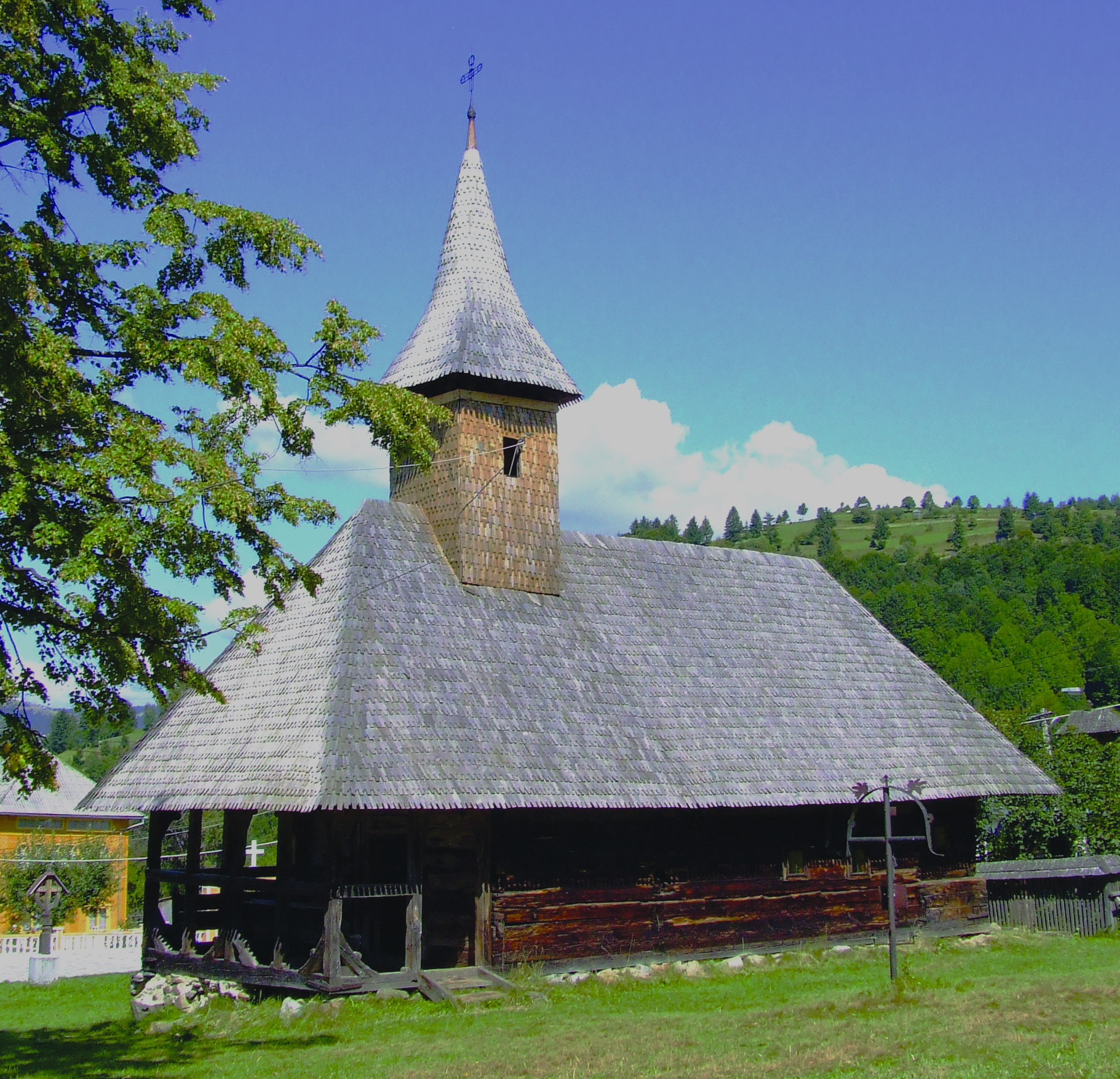 the wooden church of the Moisei monastery in Maramureș County, Romania